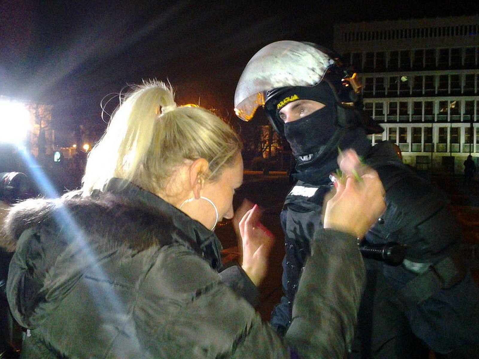 Young lady gives a rose to the policeman.